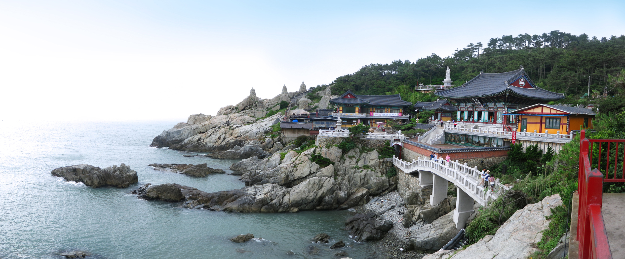 Haedong Yonggung Temple in Busan, South Korea. Photograph from Flickr; author midnight.here; license of cc-by-sa-2.0.